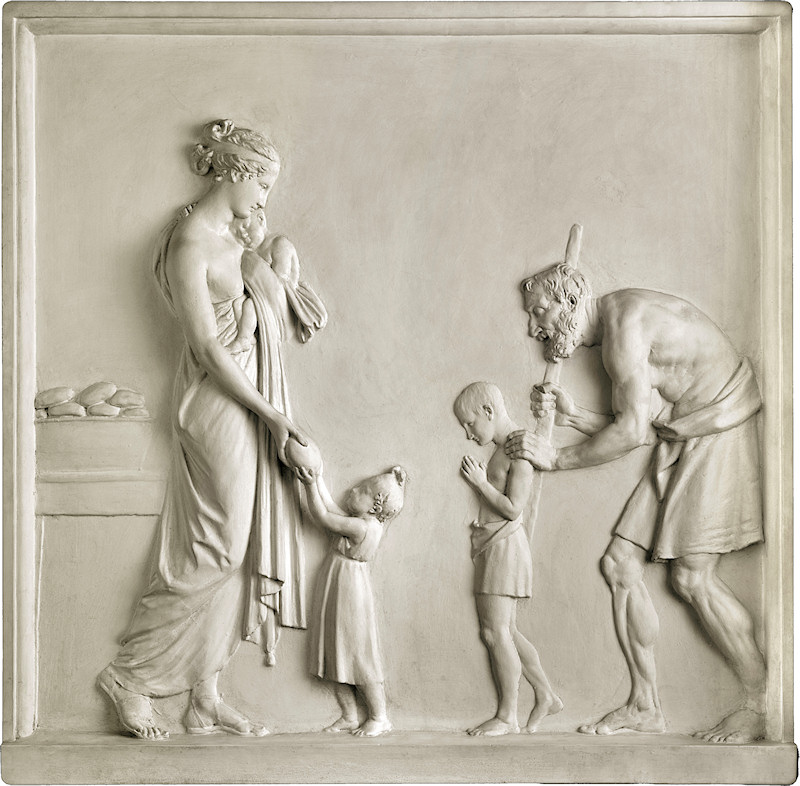 In all likelihood, Canova executed the two plaster reliefs Feed the Hungry and Teach the Ignorant for Abbondio Rezzonico, who hung them in an area set aside for a school he created to educate children from the lower-classes. Great emphasis is given in the bas-relief to the figure of the woman who is offering bread to a little girl, while holding her son in her arms, which would appear to be a tribute to Raphael. The bas-relief was reproduced in an engraving by Antonio Banzo (engraver) and Giovanni Demin (draughtsman): copperplate etching retouched with burin; 300 x 278 mm. Regarding the Rezzonico bas-reliefs, see entry for Justice.